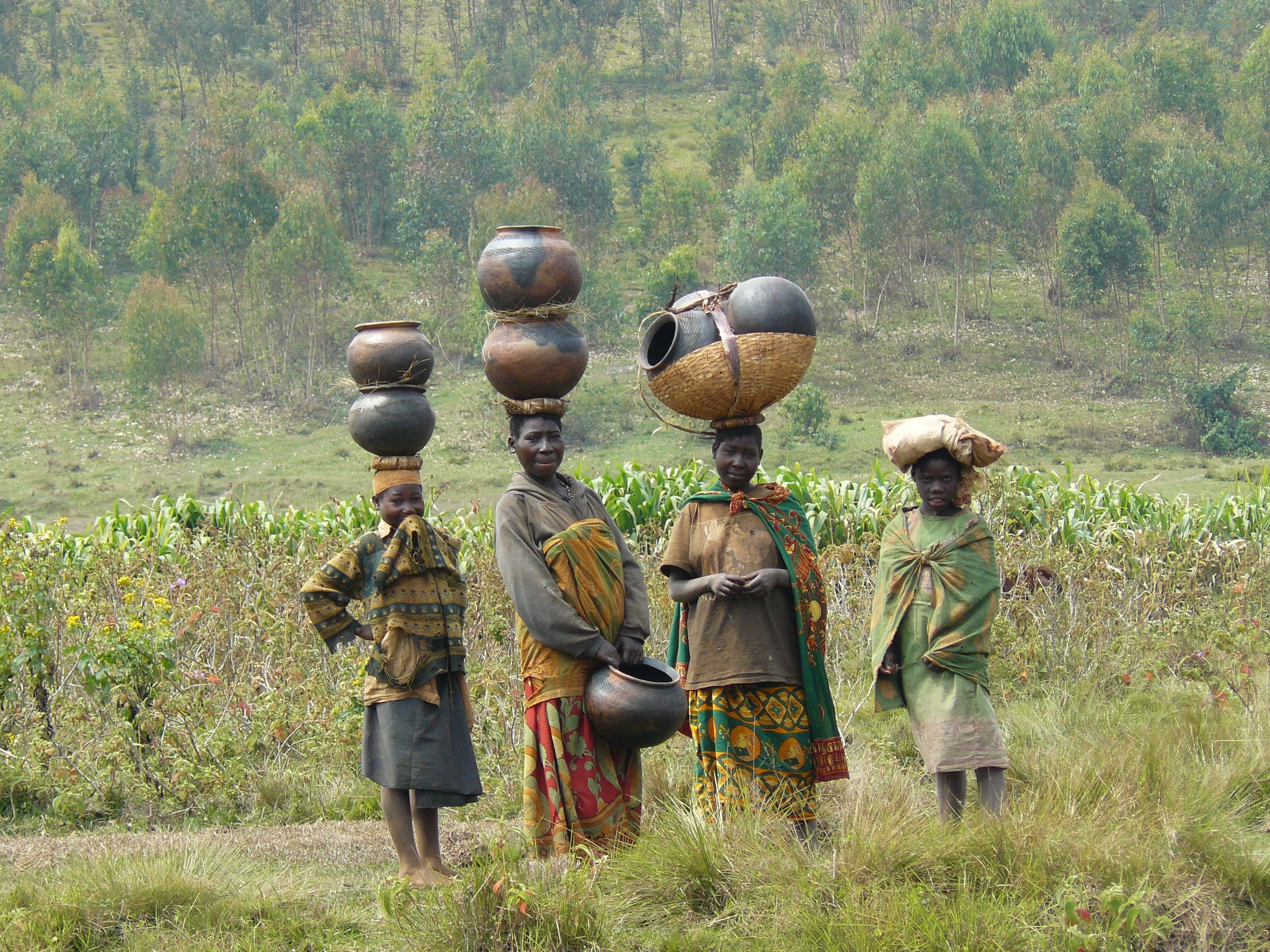 Batwa women with traditional pots. Taken in Burundi, in the village of Kiganda in the province of Muramvya in July 2007. Women are watching a community event, but not involved.